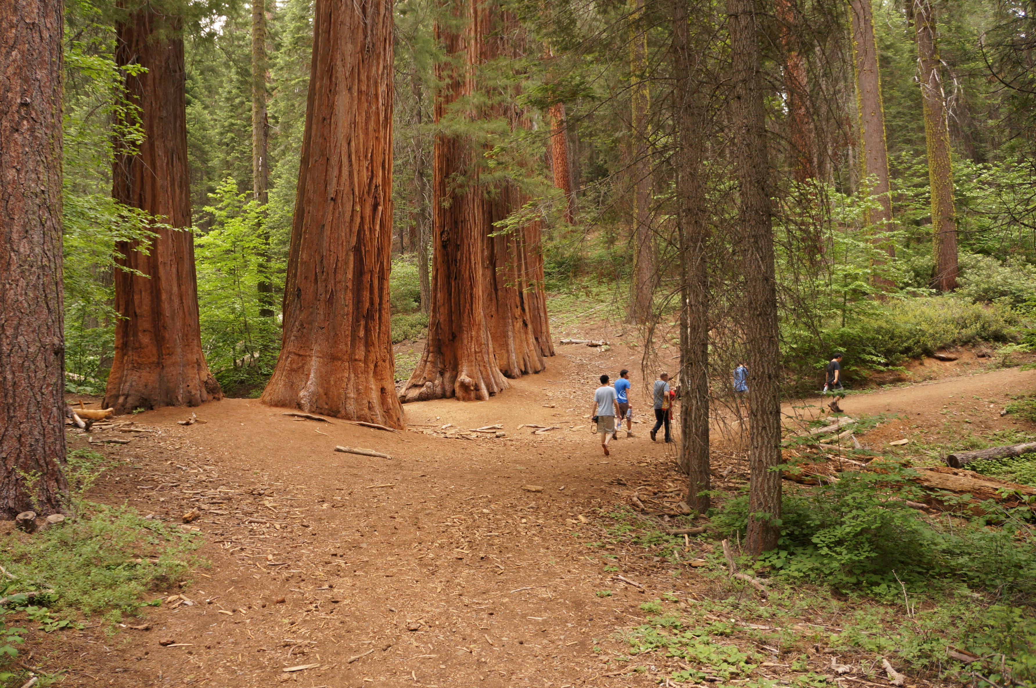 Giant sequoias (Sequoiadendron giganteum) of Merced Grove, Yosemite National Park, California. I tweaked the image by straightening the image and improving the sharpness and contrast.